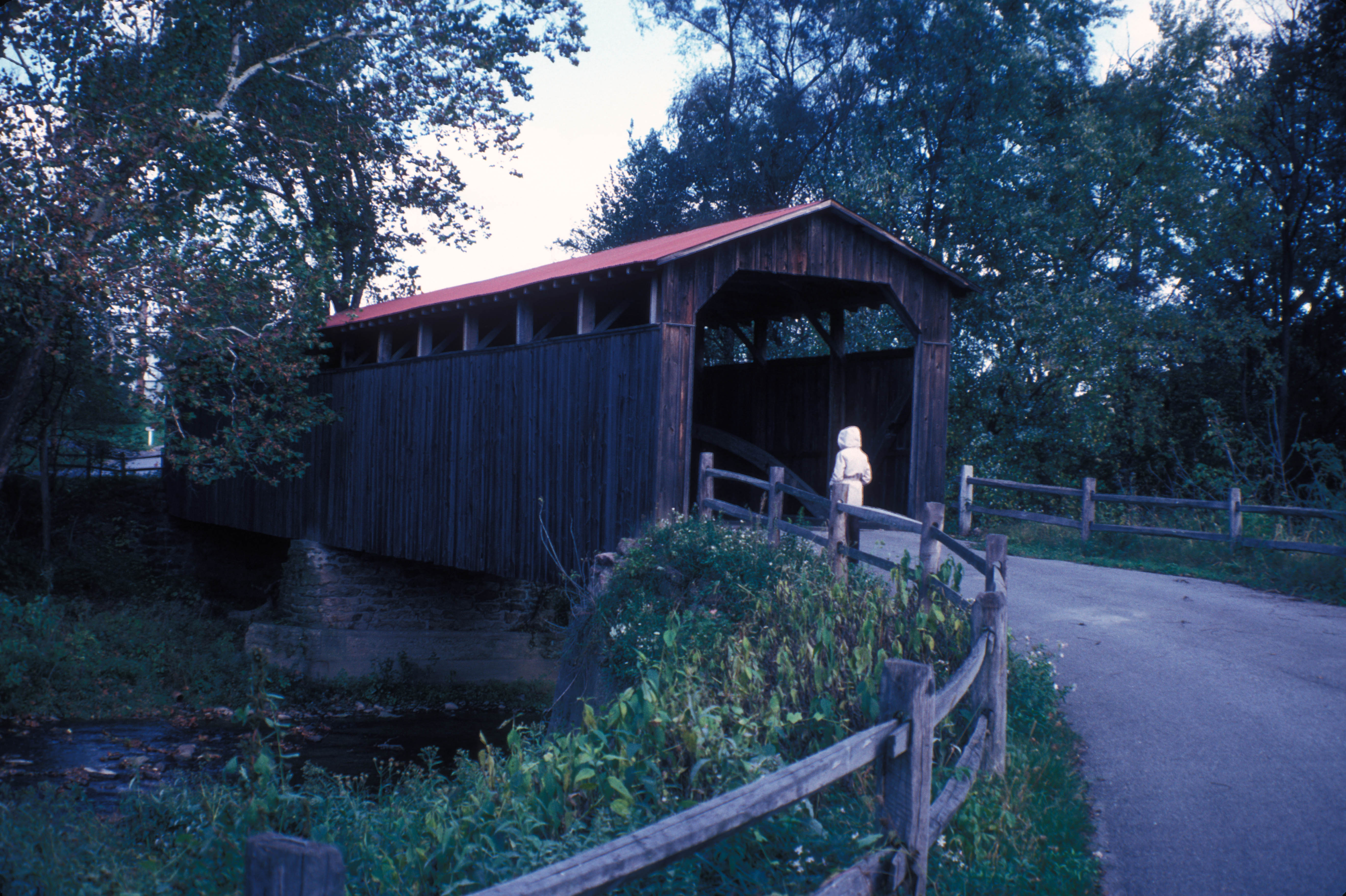 LEHMAN/PORT ROYAL CB OVER LICKING CREEK; 1888 BURR; 120’